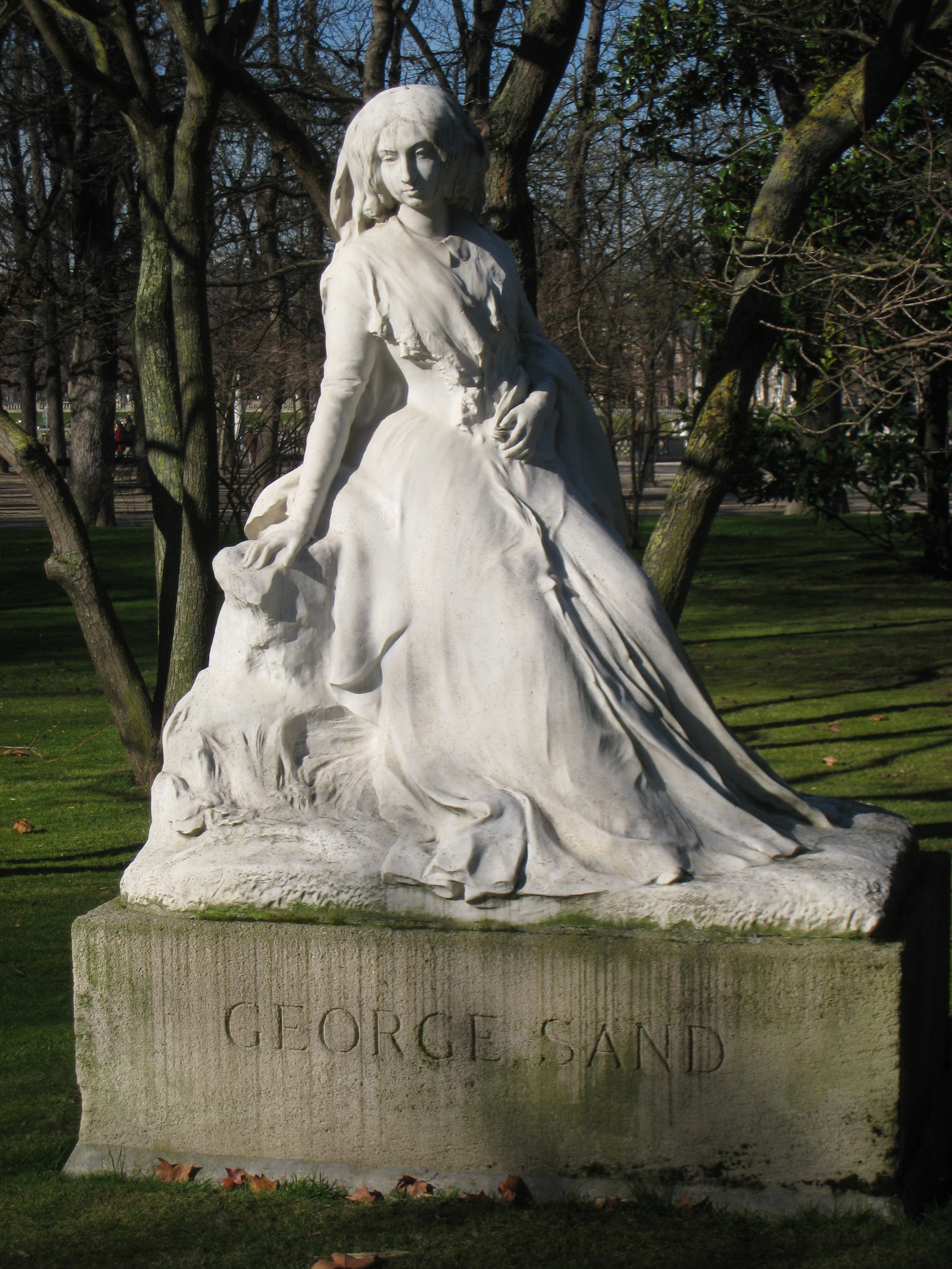 Jardin du Luxembourg, Paris, France - statue of George Sand by François-Léon Sicard (1862-1934). Copyright restrictions (if any) have long since expired since the sculptor died more than 70 years ago.